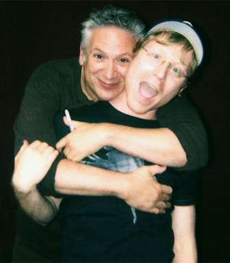 Actors Harvey Fierstein and Anthony Rapp at the Annual Flea Market and Grand Auction hosted by Broadway Cares/Equity Fights AIDS on September 26, 2006. Created by Insomniacpuppy.